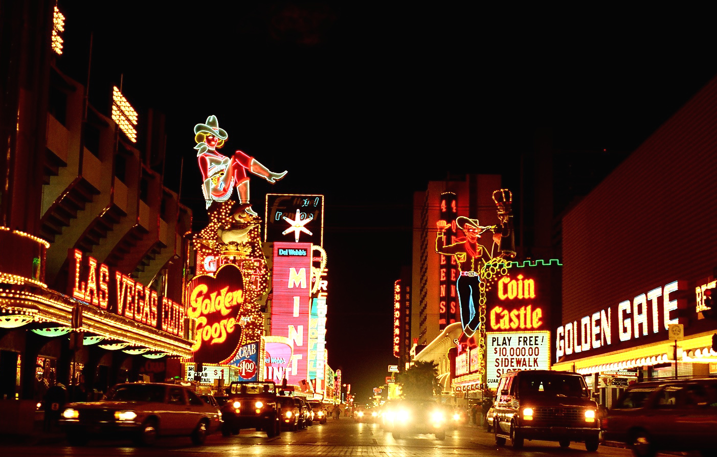 Fremont Street — at night in Downtown Las Vegas in 1983. With vintage neon signs, including "Vegas Vickie" on the left, and "Vegas Vic" cowboy on the right.